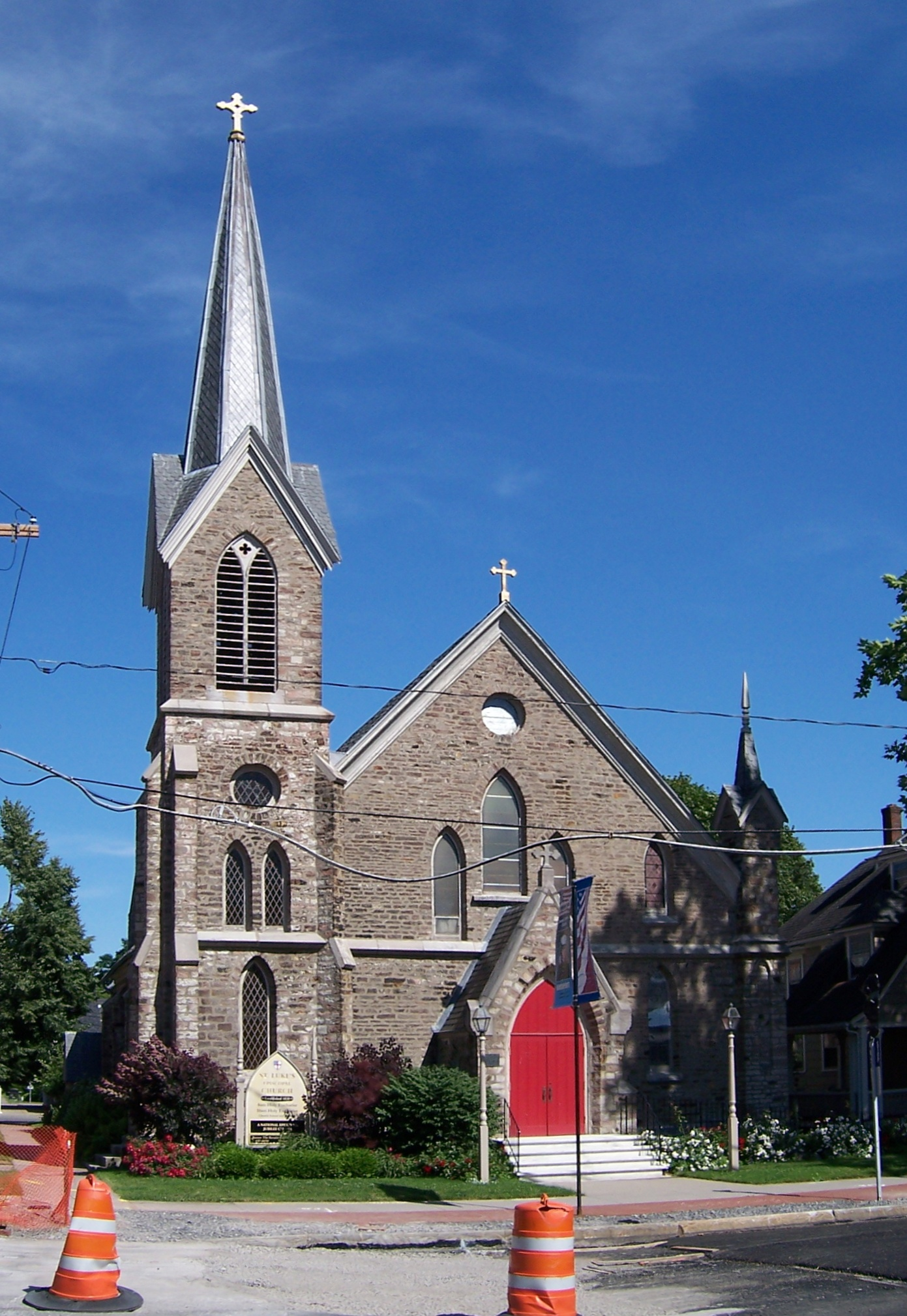 St. Luke's Episcopal Church in Brockport, New York. The church was built in 1855 and is listed on the National Register of Historic Places. This image's perspective was corrected using "hugin".